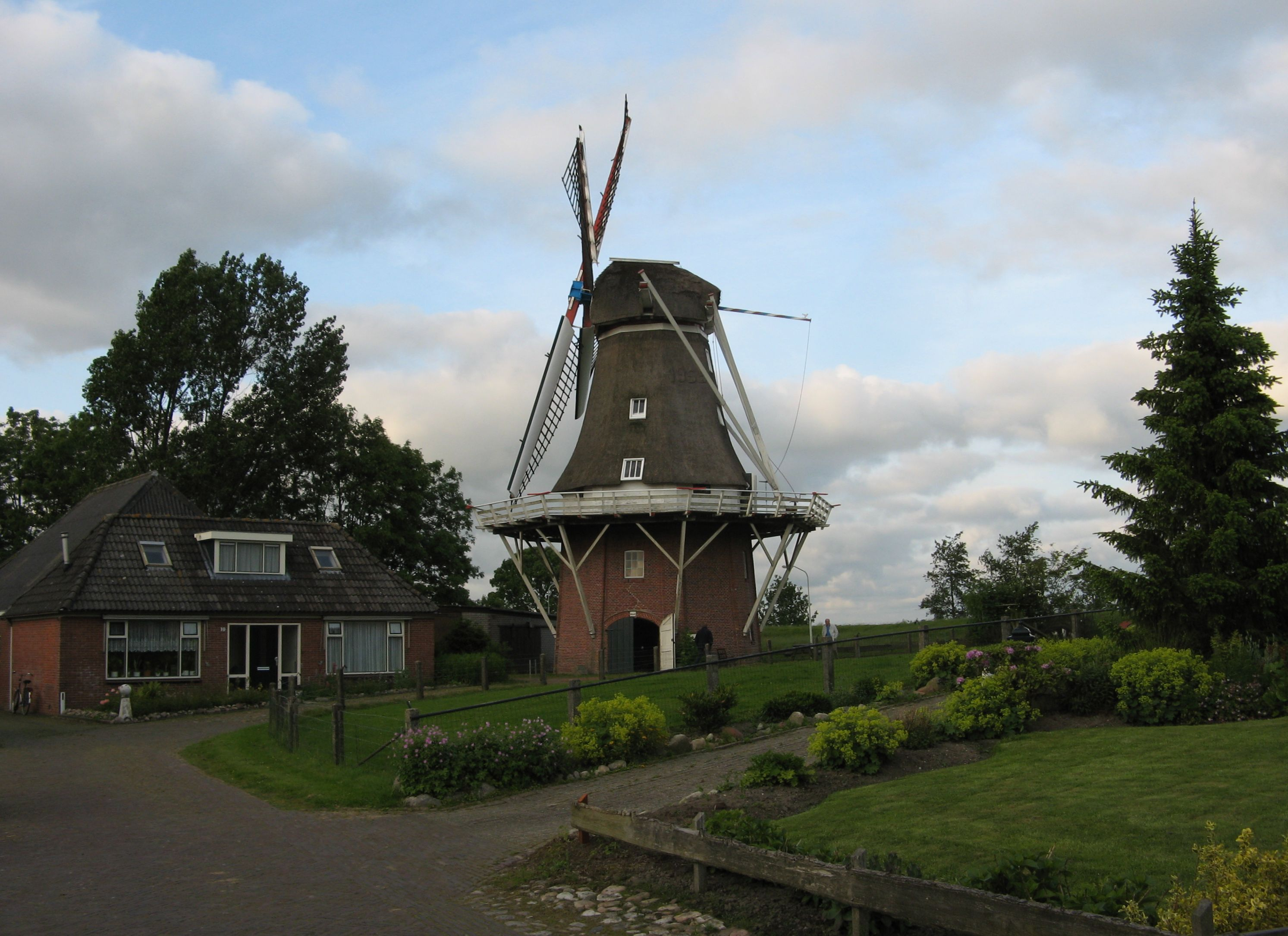 Windmill Rust Roest (Munnekezijl) as seen from the village